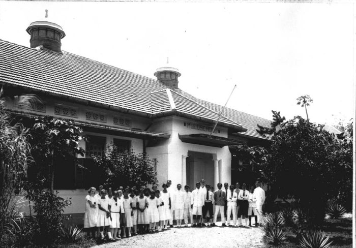 Group portrait with schoolchildren of the public 'Mulo' school